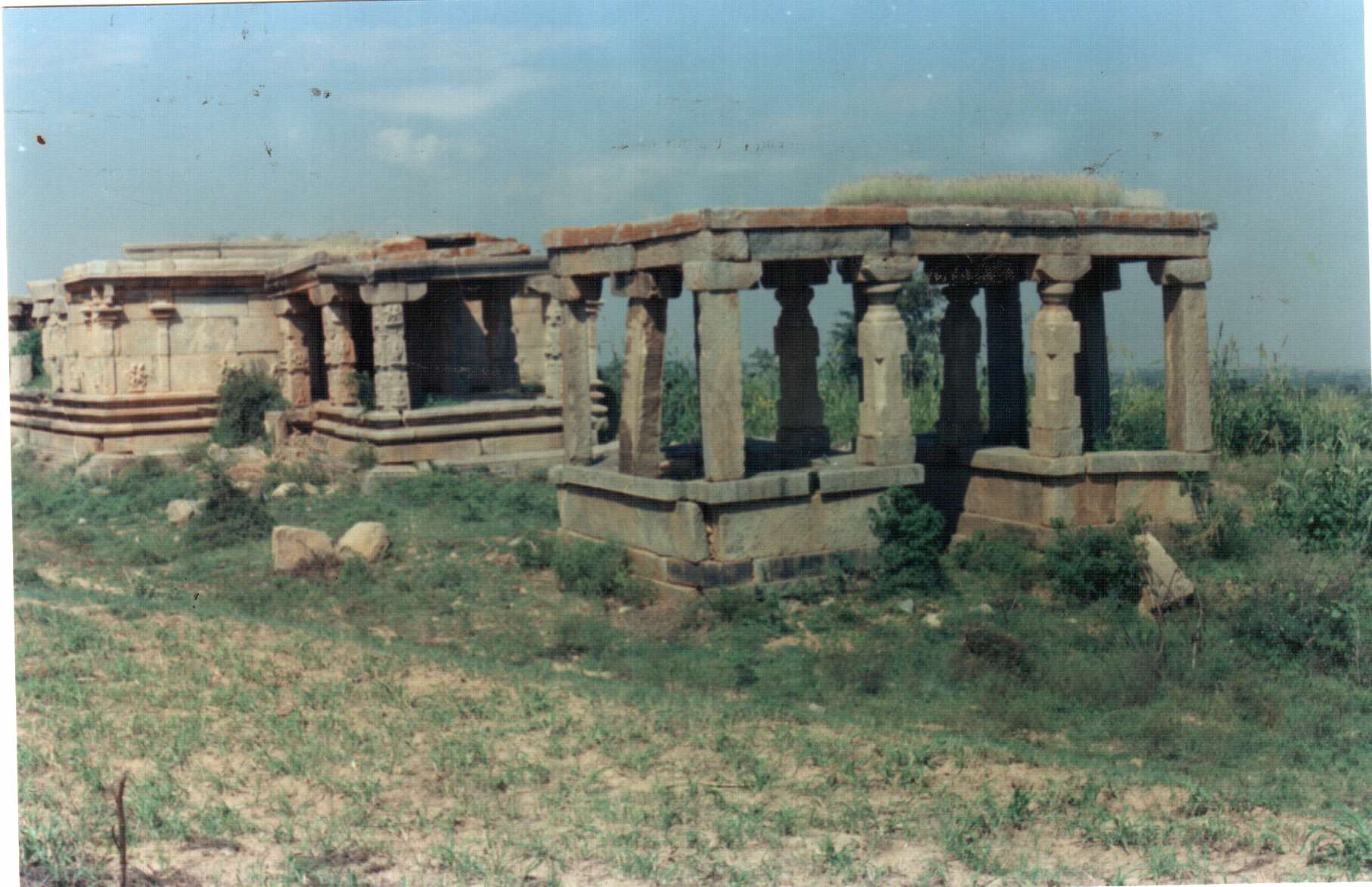 Chennakesava temple,Sadali,Kolar District,Karnataka State,India.